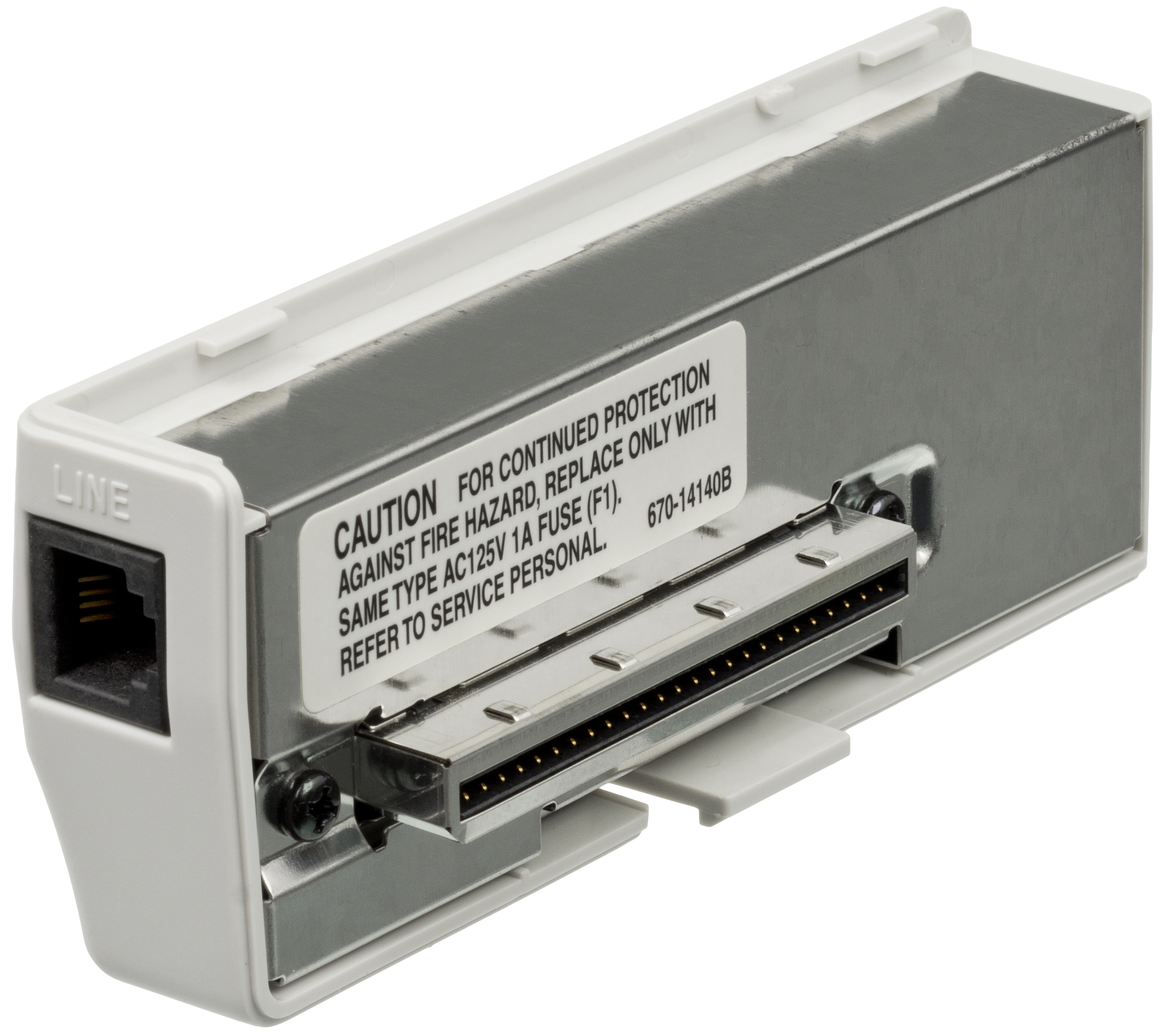 The 56.6K dial-up modem for the Sega Dreamcast. Used for browsing the web and playing against others online, every Dreamcast was bundled with this modem. Unlike other external modems, this was built into the design of the body and sits flush when installed. It is removable, and can be upgraded with a rare broadband version that was sold separately.